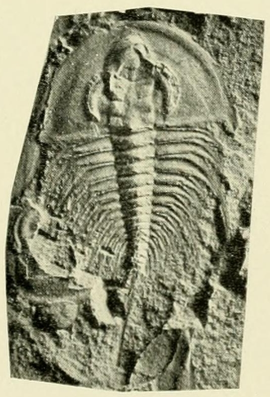 Fritzolenellus truemani (Walcott, 1913) Olenellus truemani; Walcott 1913:316, pl. 54, figs. 2, 6, and 8; Walcott 1916, pl. 17, figs. 2, 6, and 8; Fritz 1992:15, pl. 6, figs. 1–4, pl. 7, figs. 1–6, and text fig. 6b. Fritzolenellus truemani (Walcott); Lieberman 1998:72; Lieberman 1999:95, pl. 17, fig. 1. Catalog record: USNM PAL 60089 Original historic description: PAGEOlenellus truemani Walcott316Fig.8. (× 2.) A small, almost entire dorsal shield. (Locality 61k.) U. S. National Museum, Catalogue No. 60089. The specimens represented by figs. 2-10 are from locality 61k. Lower Cambrian: Mahto formation; dark, hard siliceous shale, northeast base of Mumm Peak above Mural Glacier on the west side of Hitka Pass, 6 miles (9.6 km.) in a direct line north of summit of Robson Peak and northwest of Yellowhead Pass, in western Alberta, Canada.